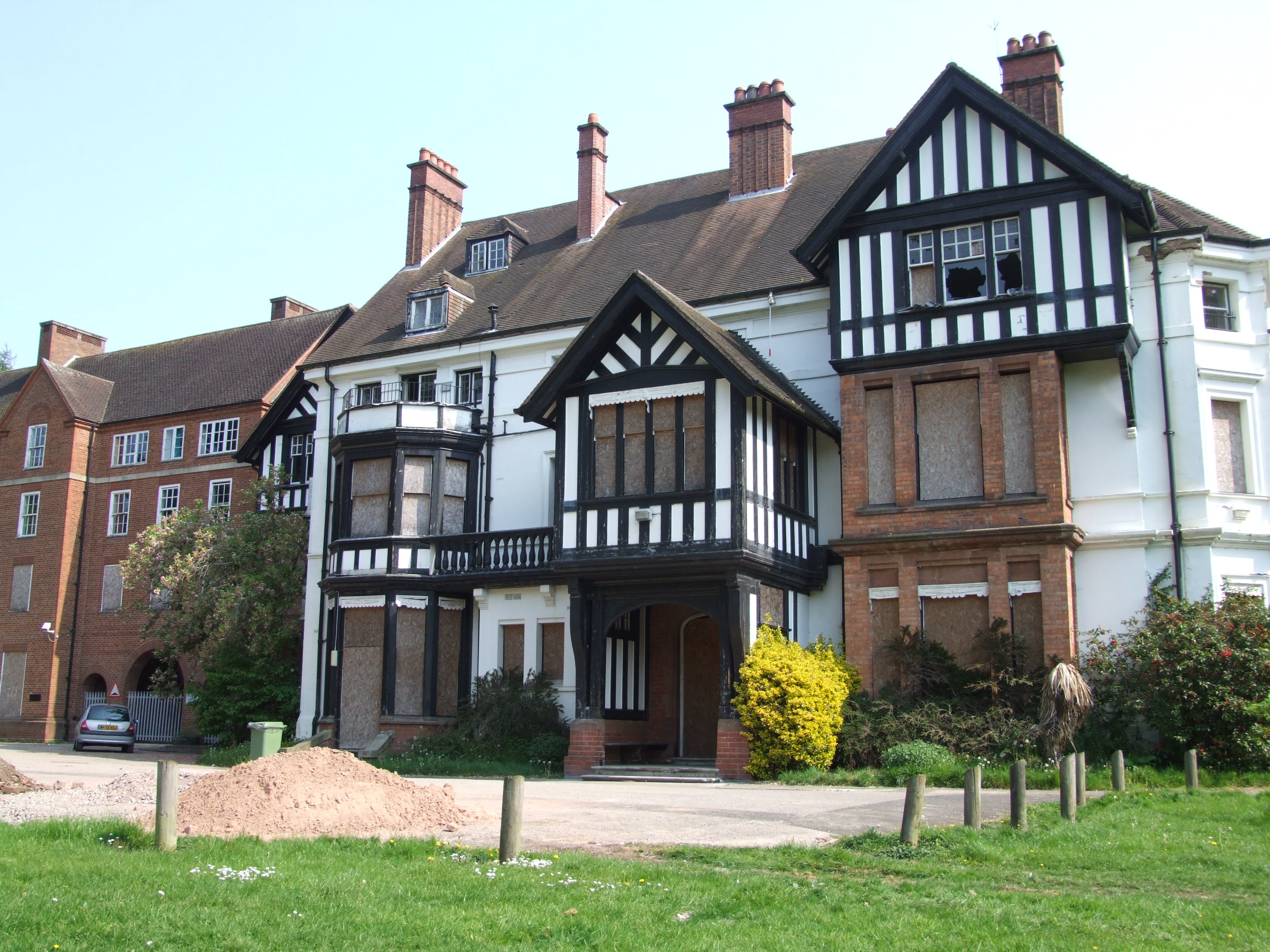 The former home of George and Elizabeth Cadbury. Now owned by Birmingham University and allowed to go into ruin.